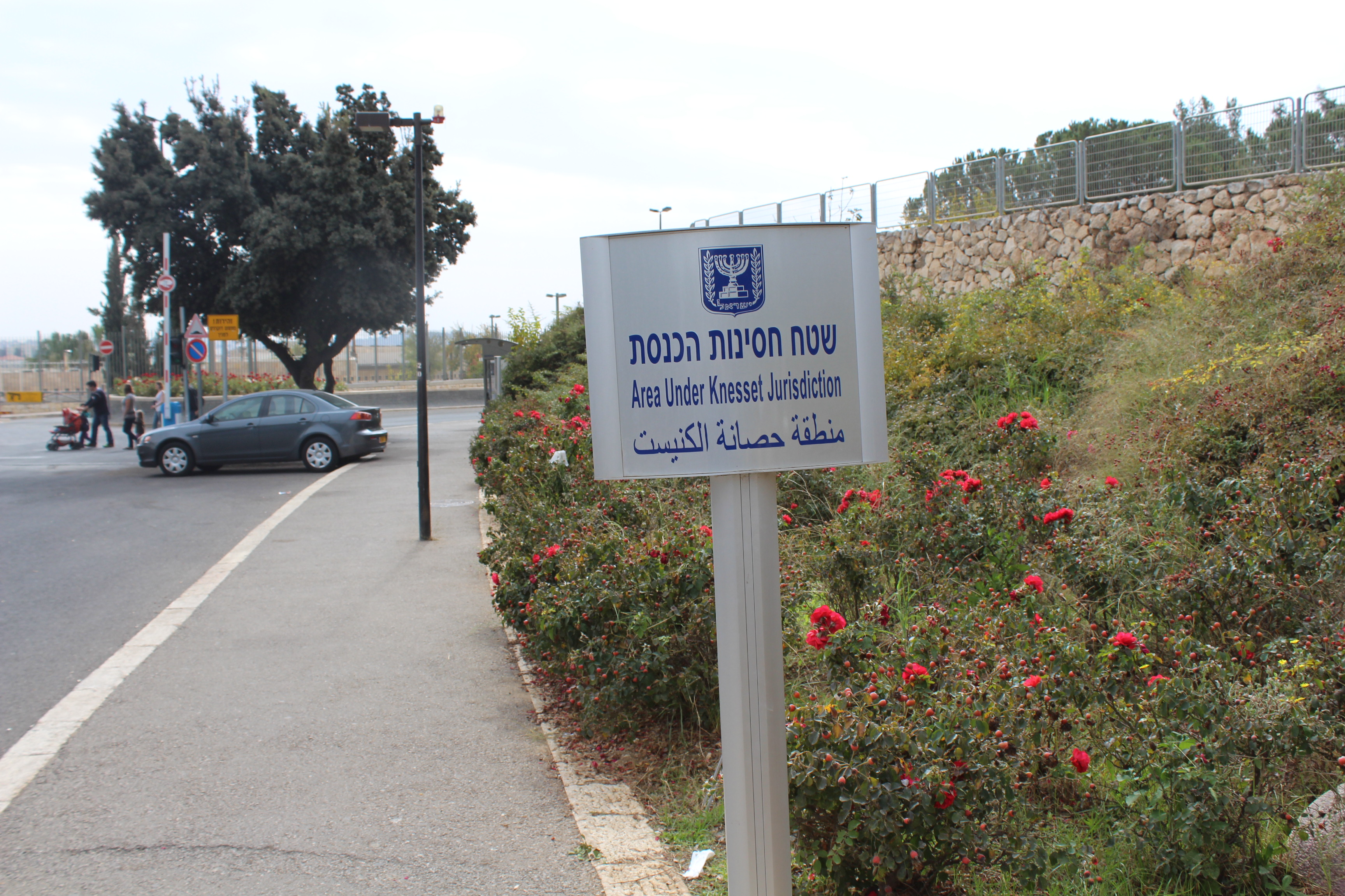 The Jerusalem Bird Observatory, Sacher Park, Jerusalem, Israel